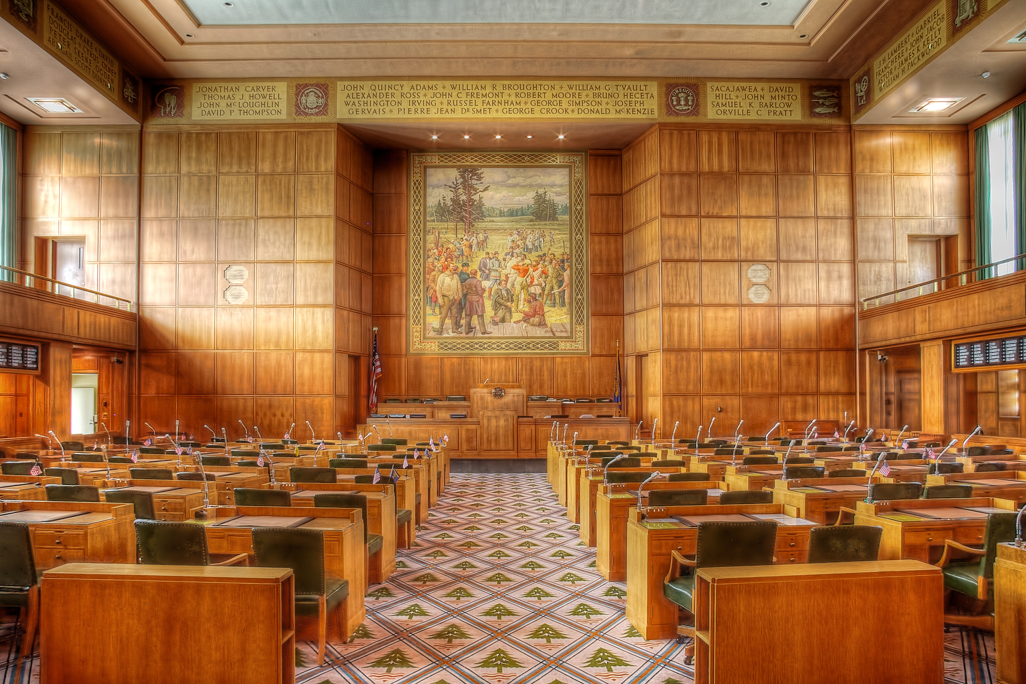 Software: Photoshop Elements, Aperture, Photomatix, Nik Viveza, Topaz Adjust, Topaz Detail, Topaz DeNoise 5